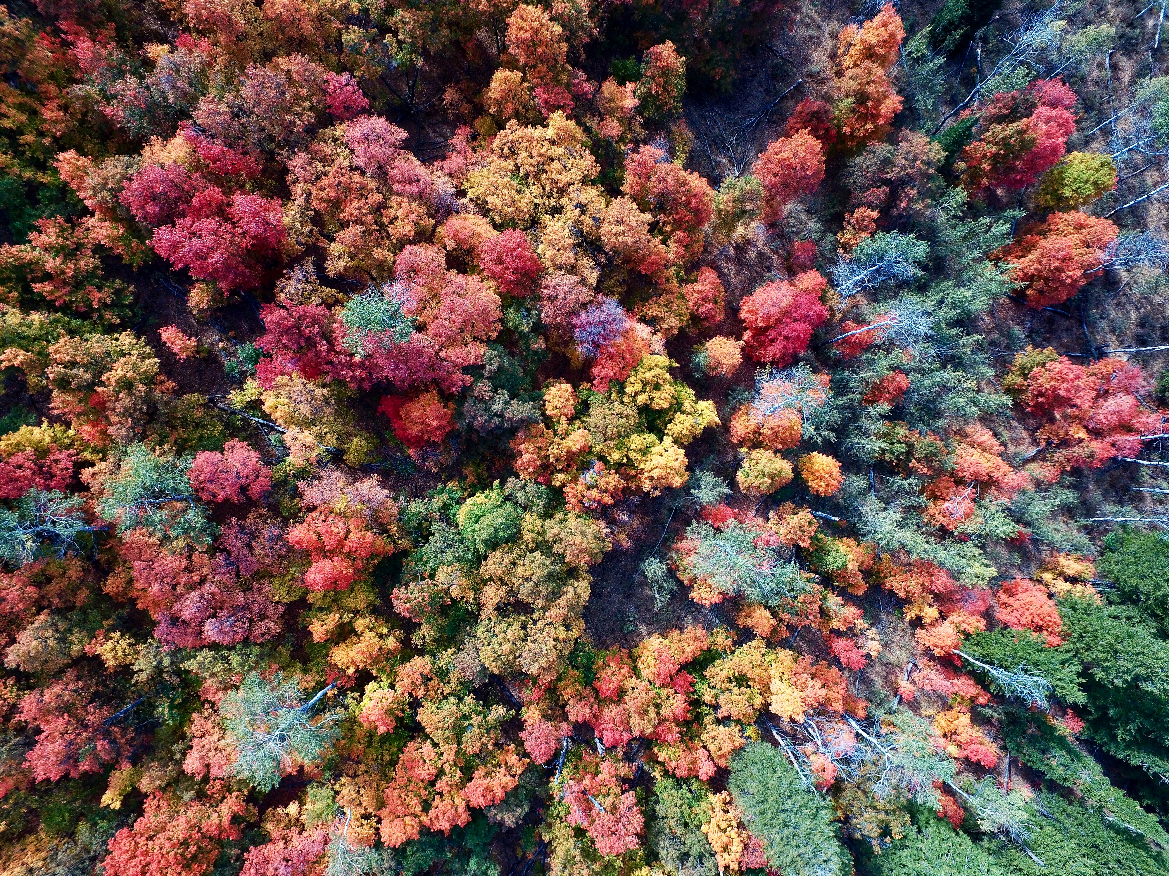 Richmond, United States